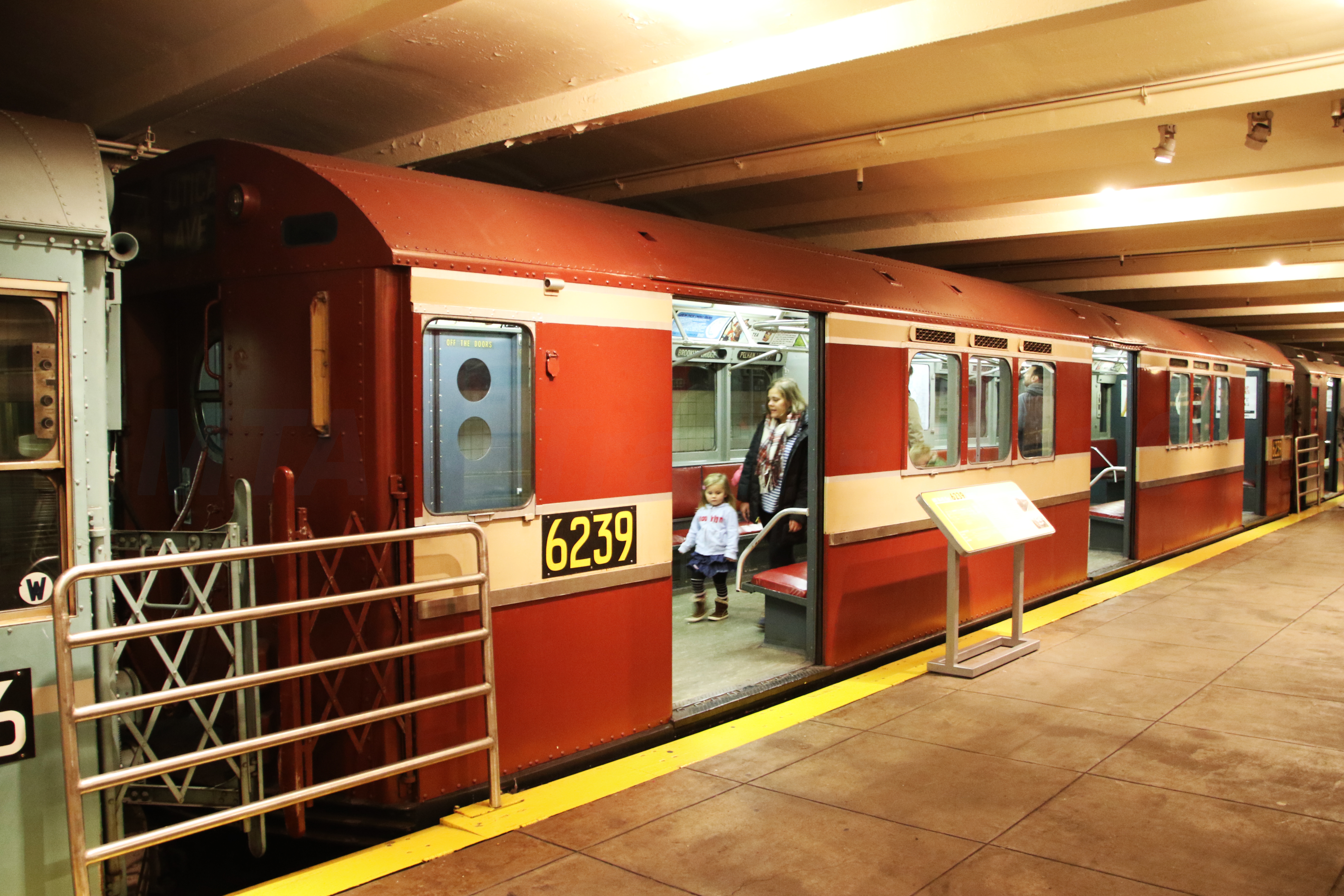 MTA NYC Subway ACF R15 at the New York City Transit Museum